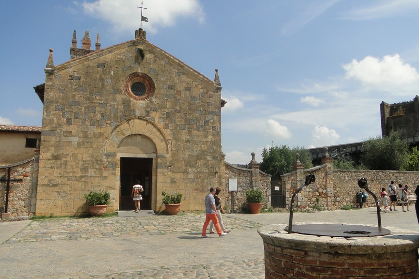 Monteriggioni, The church